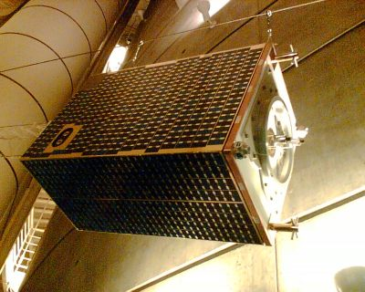 Photo taken by user Oz1sej showing a 3D-model of the Ørsted Satellite in the Tycho Brahe Planetarium in Copenhagen, Denmark.